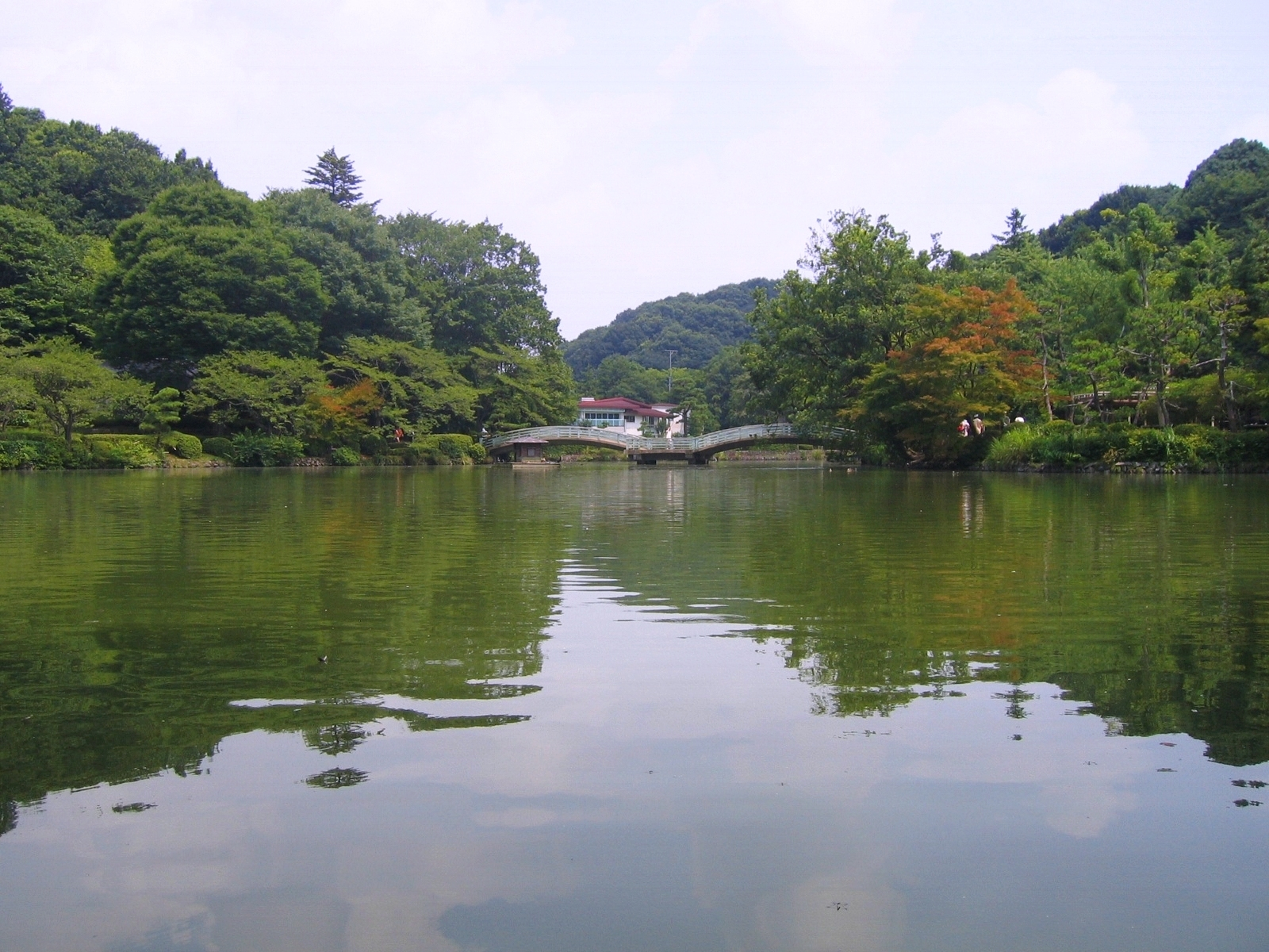 Yakushiike Pond, Yakushiike Park, Machida, Tokyo, Japan